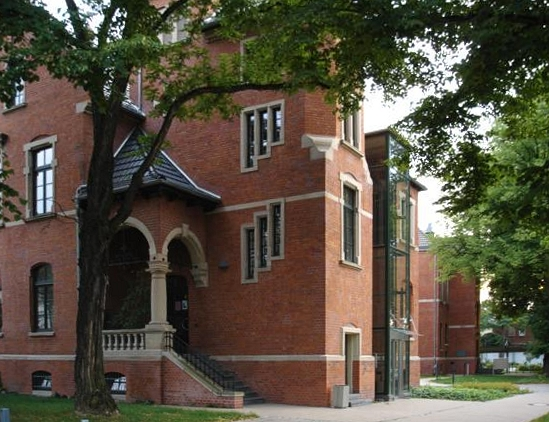 Building of the Fachhochschule Worms (University) in Worms (Rheinland-Pfalz, Germany)